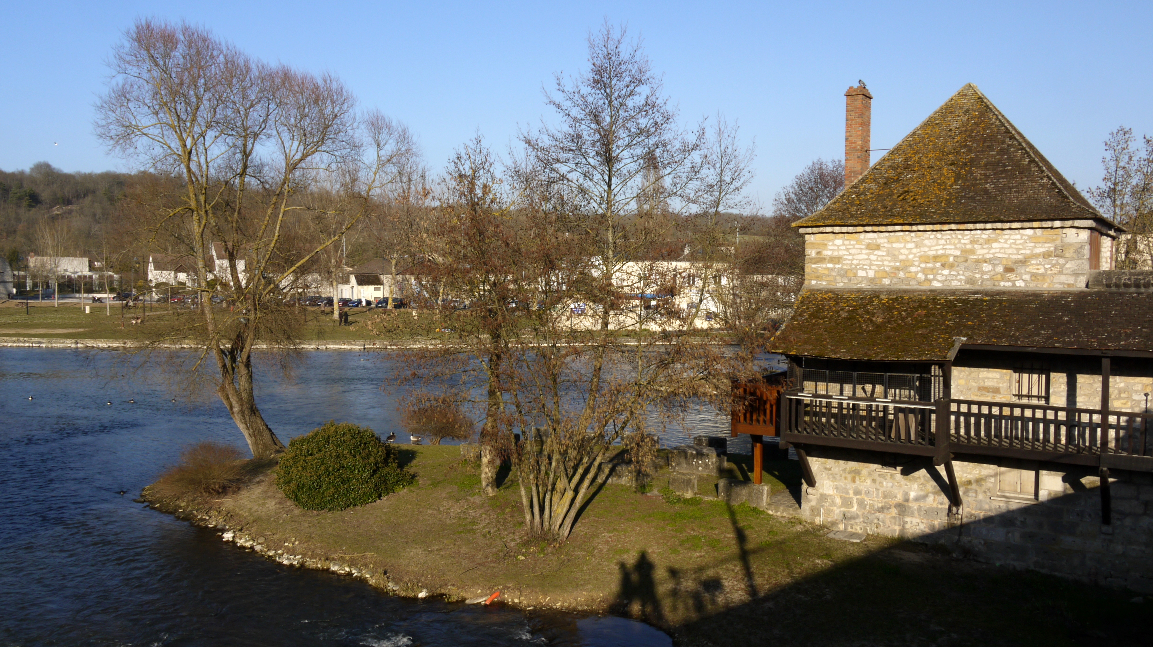 Bridge of Moret sur Loing, Ile de France